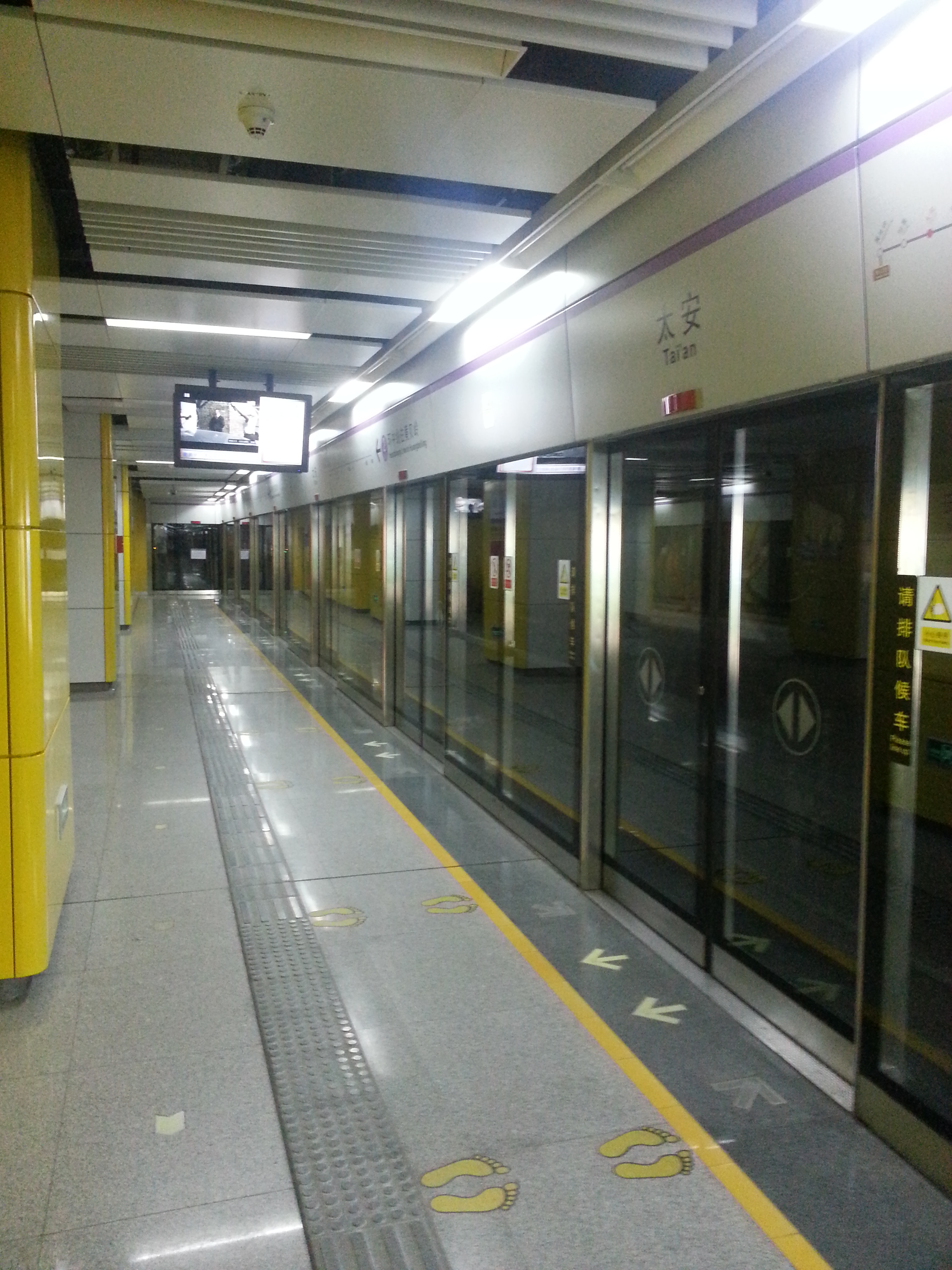 Shenzhen Metro Tai'an Station platform